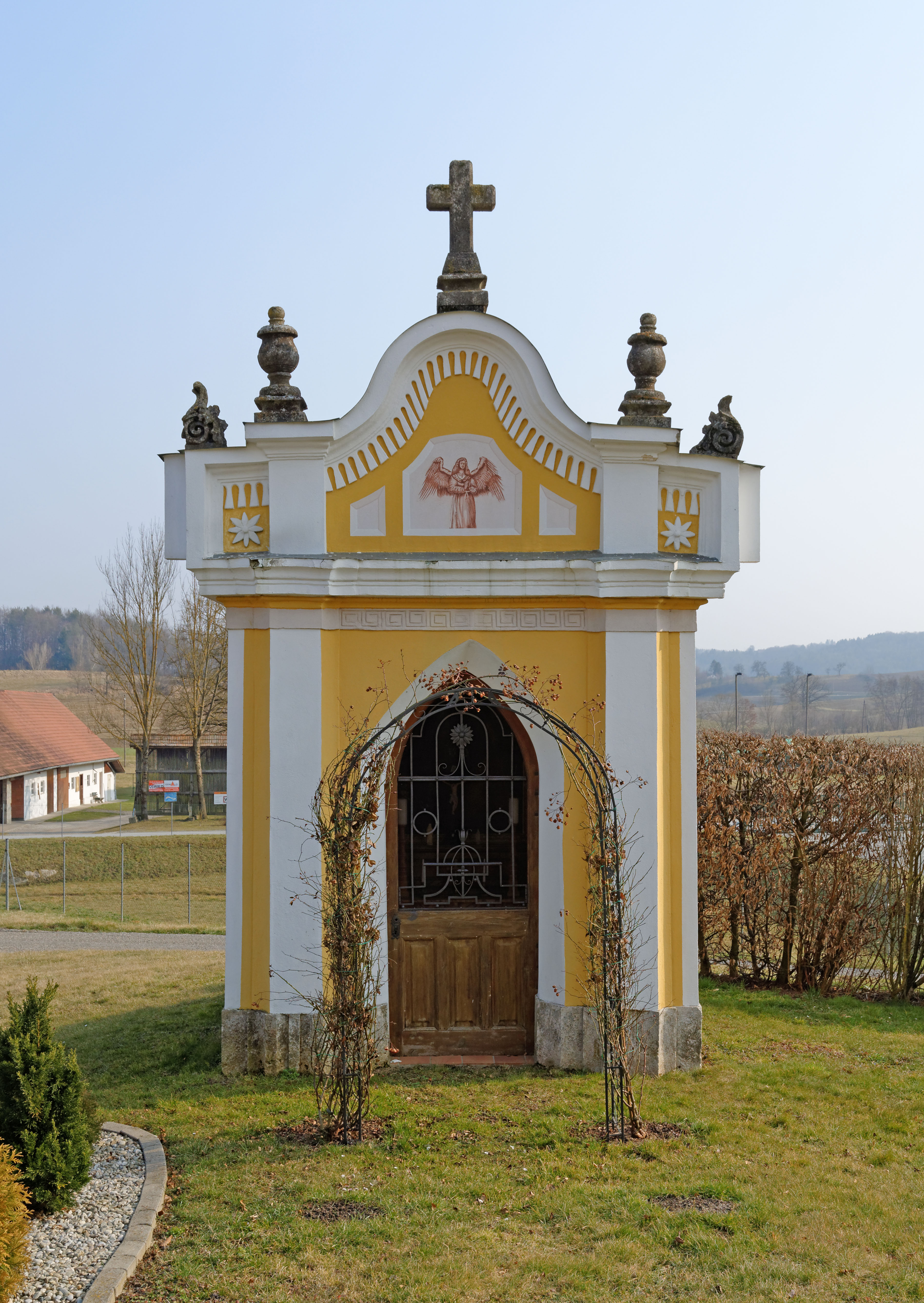 Chapel in St. Nikolai im Sausal, Styria, Austria